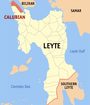 Map of Leyte showing the location of Calubian